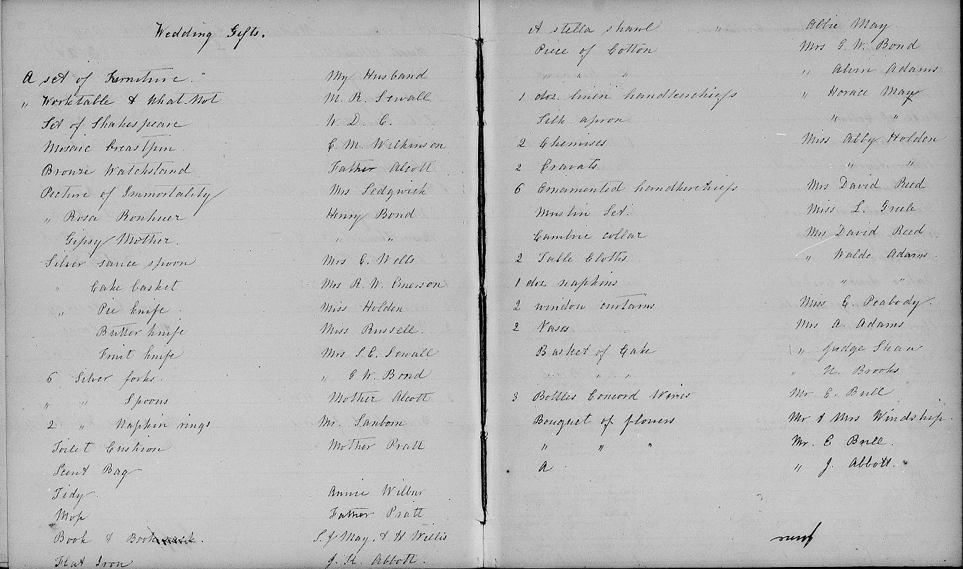 Pratt, Anna (Alcott), 1831-1893.[Diary]1860-1861. 1v. in 1 folder; a list of her wedding presents. Alcott family additional papers, 1707-1904: Guide. (MS Am 1130.14-1130.16)